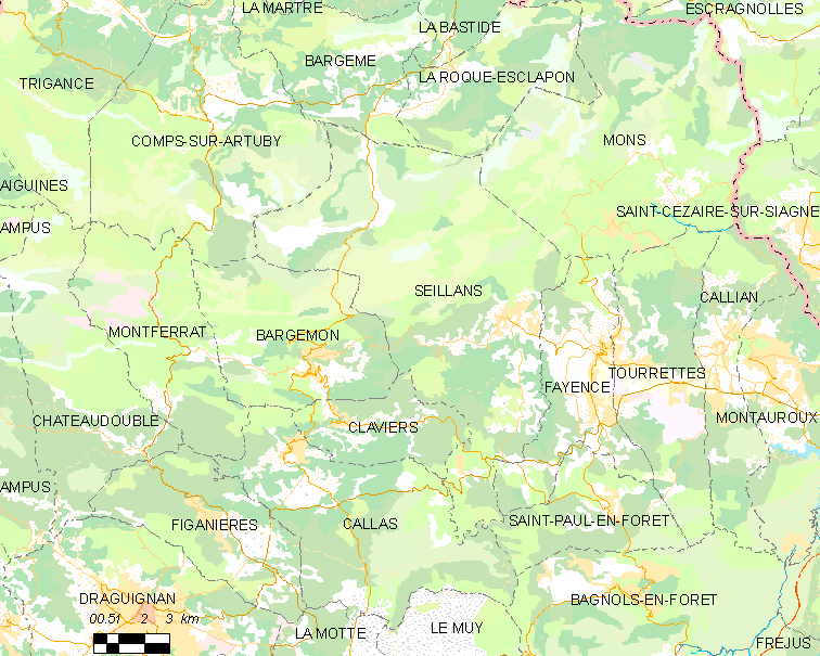 Map of French municipality Seillans